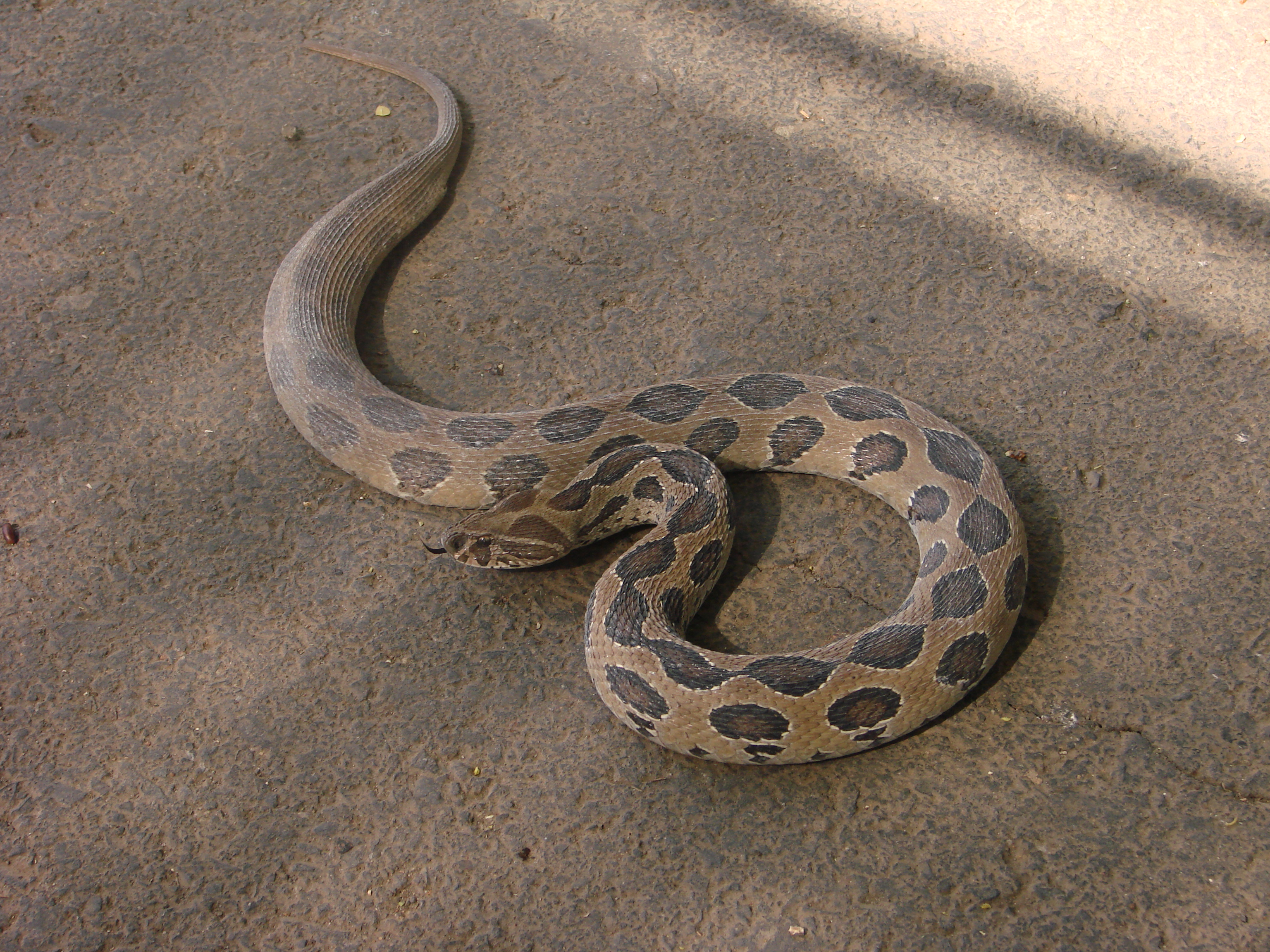 Daboia russelii Russel's Viper in the CME Dapodi campus. Photographed by Abhinav Chawla (self).